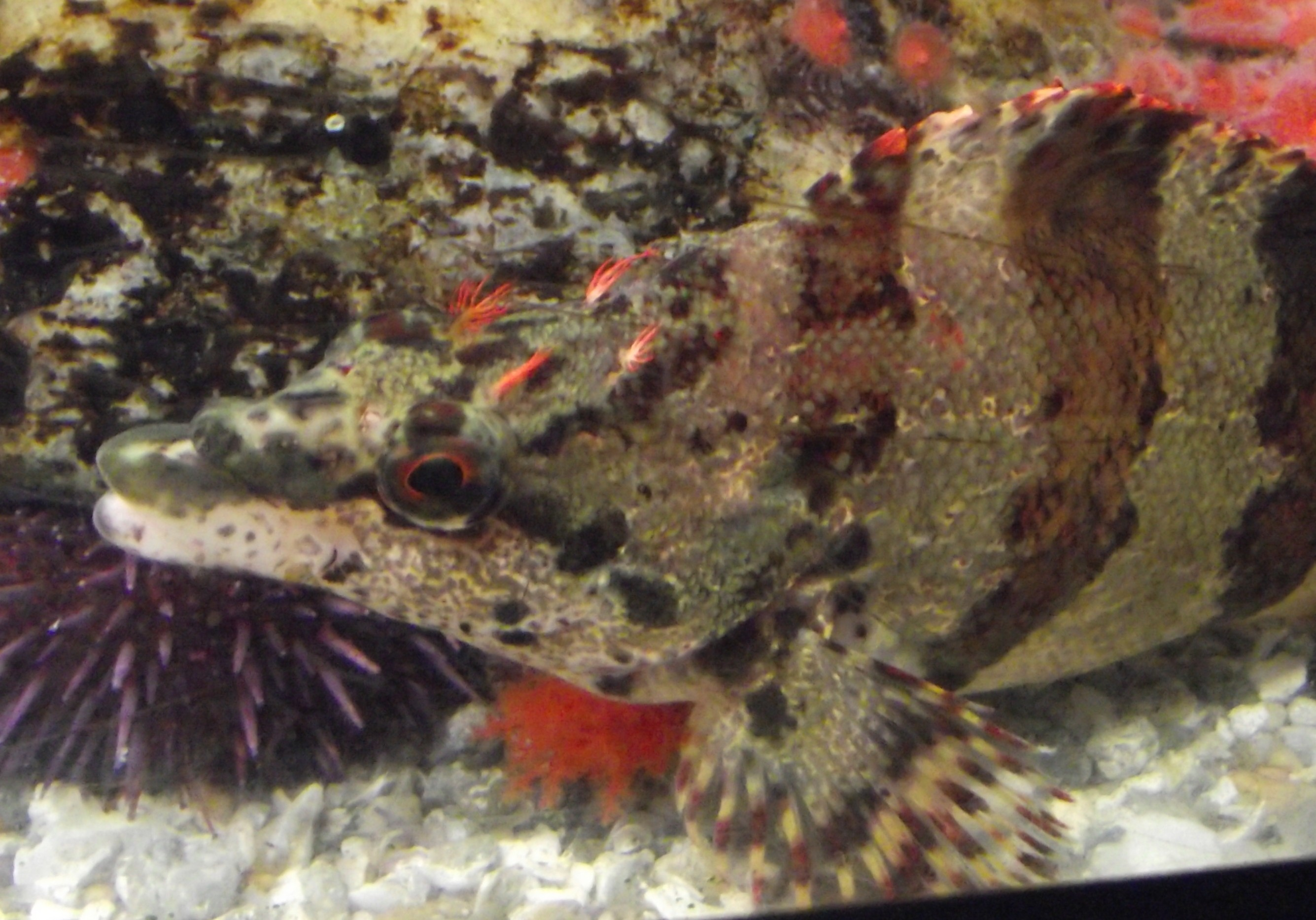 Oxylebius pictus at the Birch Aquarium, San Diego, California, USA.